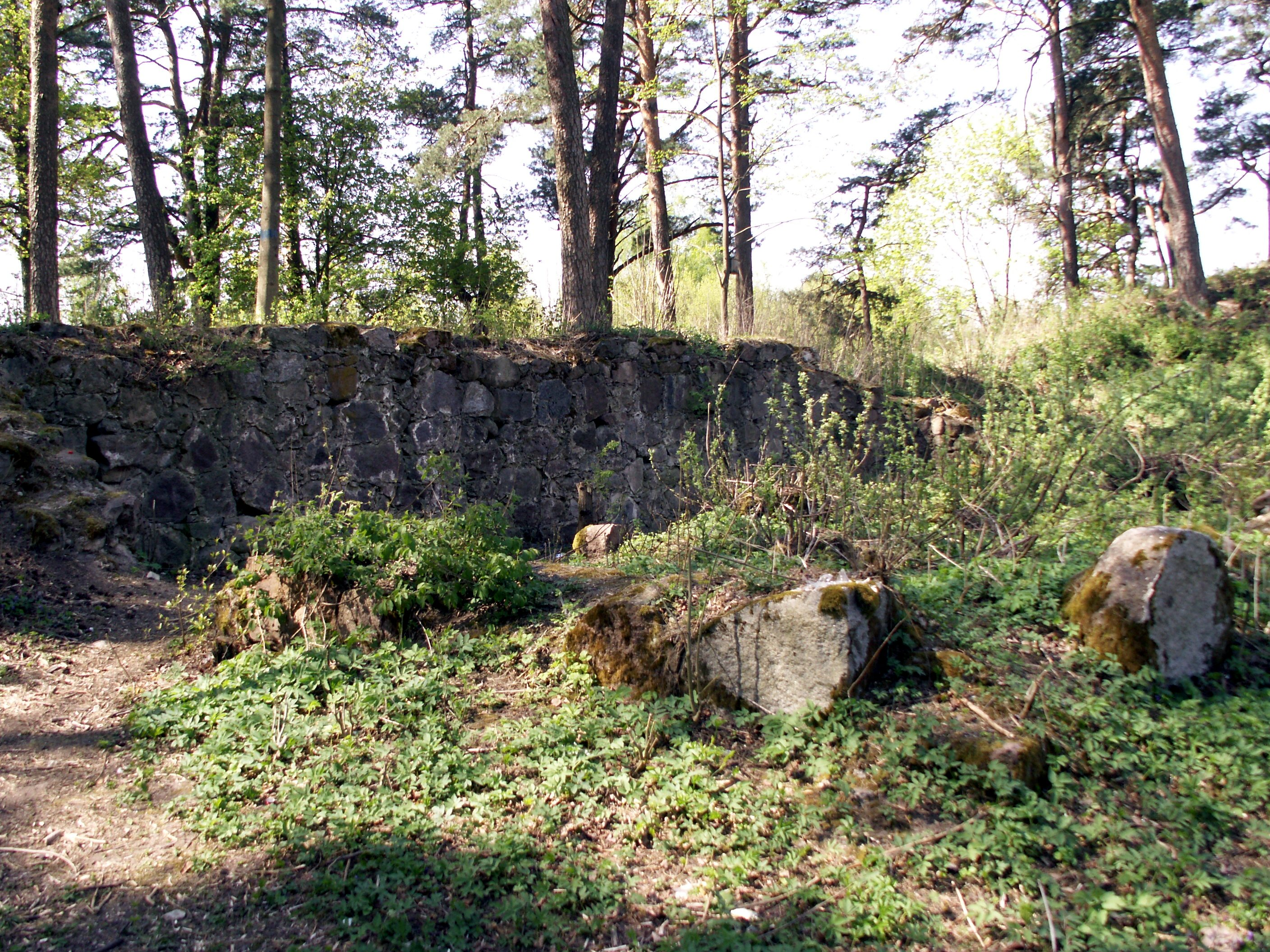 Eišiškės hillfort, Šalčininkai district, Lithuania